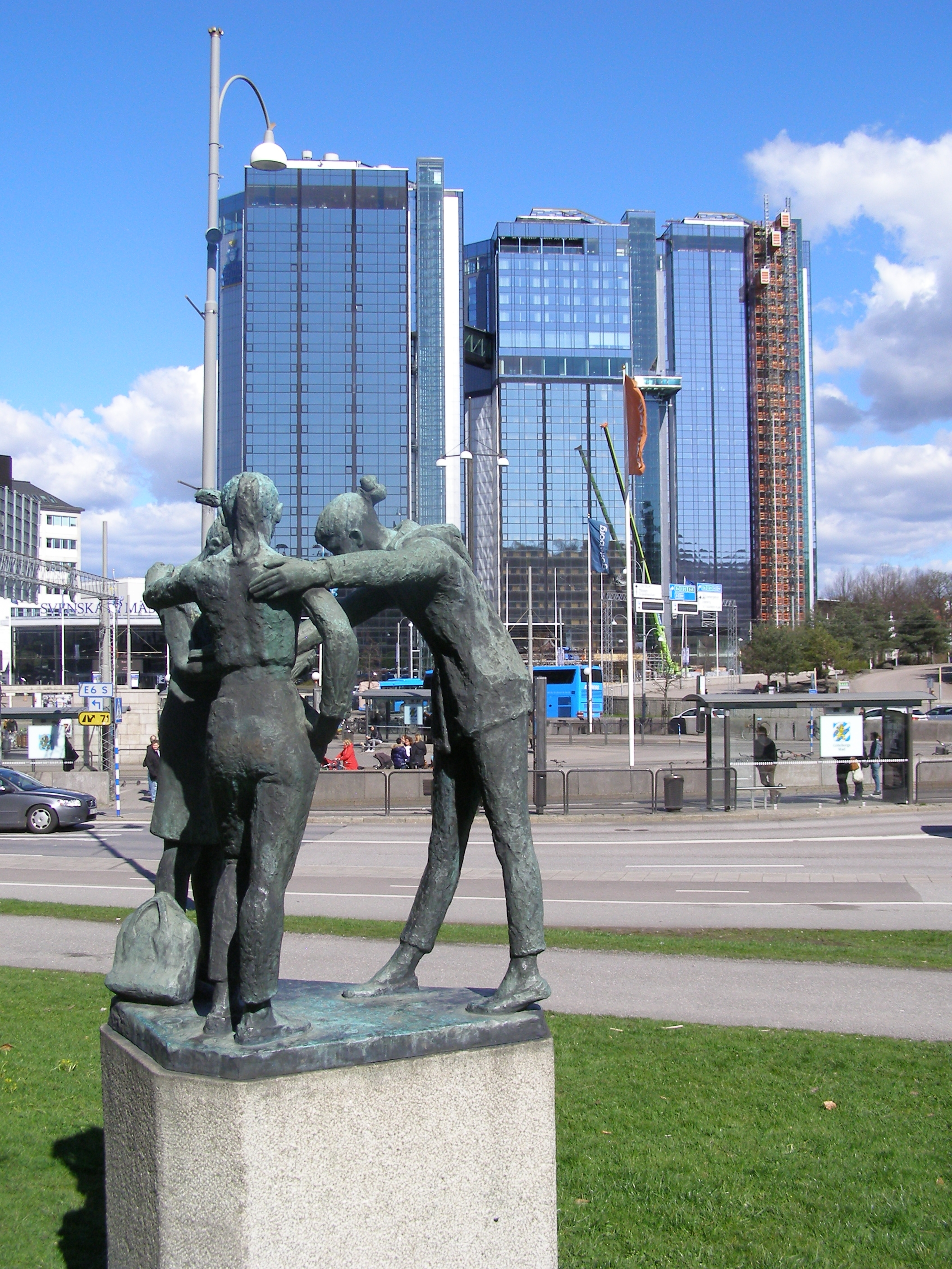 Gothenburg - Gothia Towers and sculpture "Discussiion" ("Diskussion", 1957) by Nanna Ullman